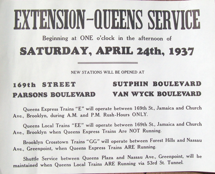 This poster was created to inform riders of the impending extension of subway service to 169th Street on April 24, 1937, and of the changes in subway service to occur effective that date.